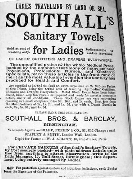 Southalls Sanitary Towels for Ladies from the Antiquary of 1888